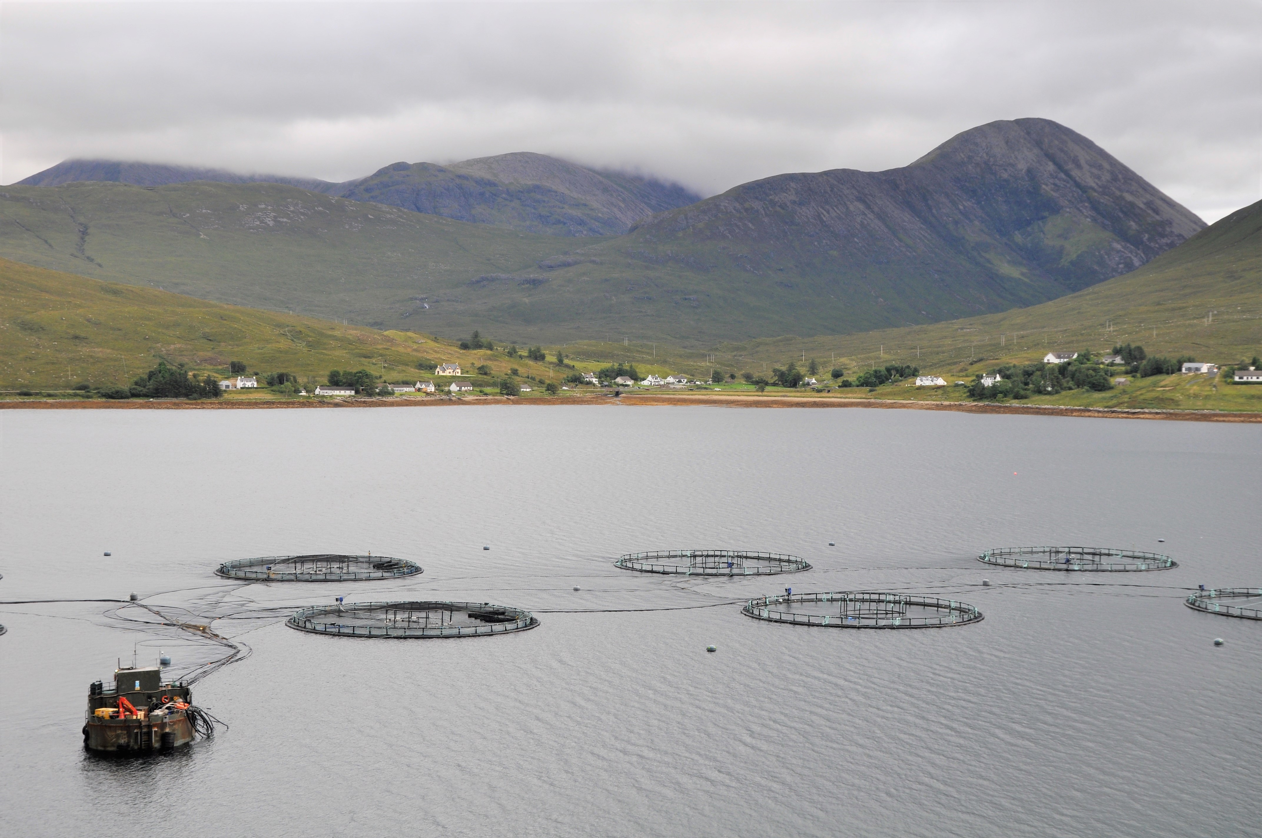 Fish farms in Loch Ainort (Isle of Skye, Scotland), looking toward the village of Luib and (on the right) Beinn na Crò (572 m).